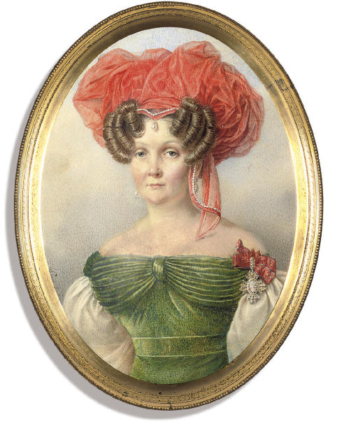 Portrait of Ekaterina Aleksandrovna Kologrivova, née Chelishcheva (1778-1857)